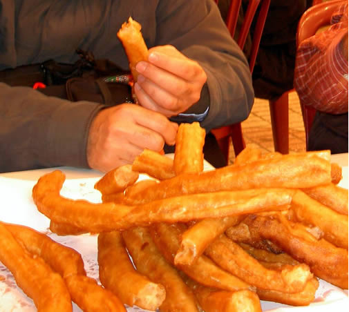 Calentitos or Calientes, also known as Churros